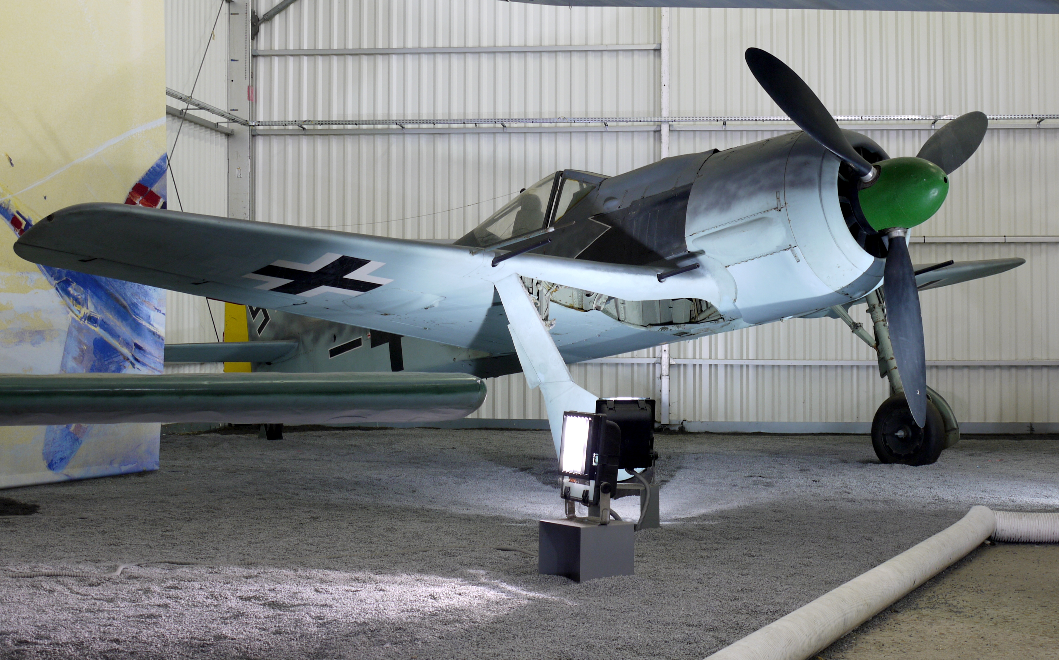 German single-engine fighter aircraft Focke-Wulf Fw 190 (1939), Museum of Air and Space Paris, Le Bourget (France)